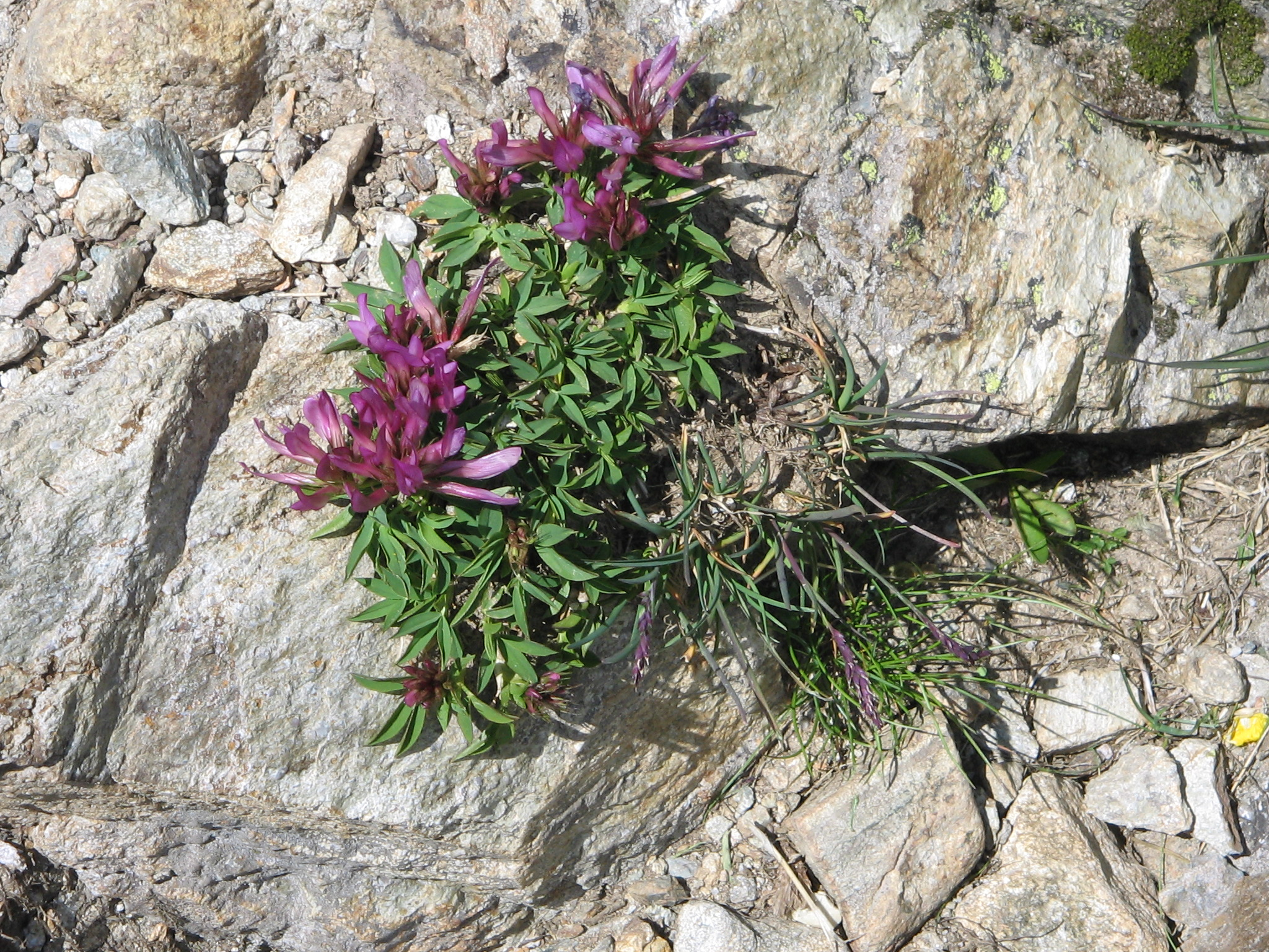 Trifolium alpinum